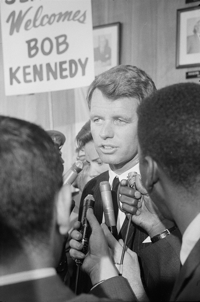 Robert F. Kennedy and Ethel Kennedy (obscured) at the 1964 Democratic National Convention